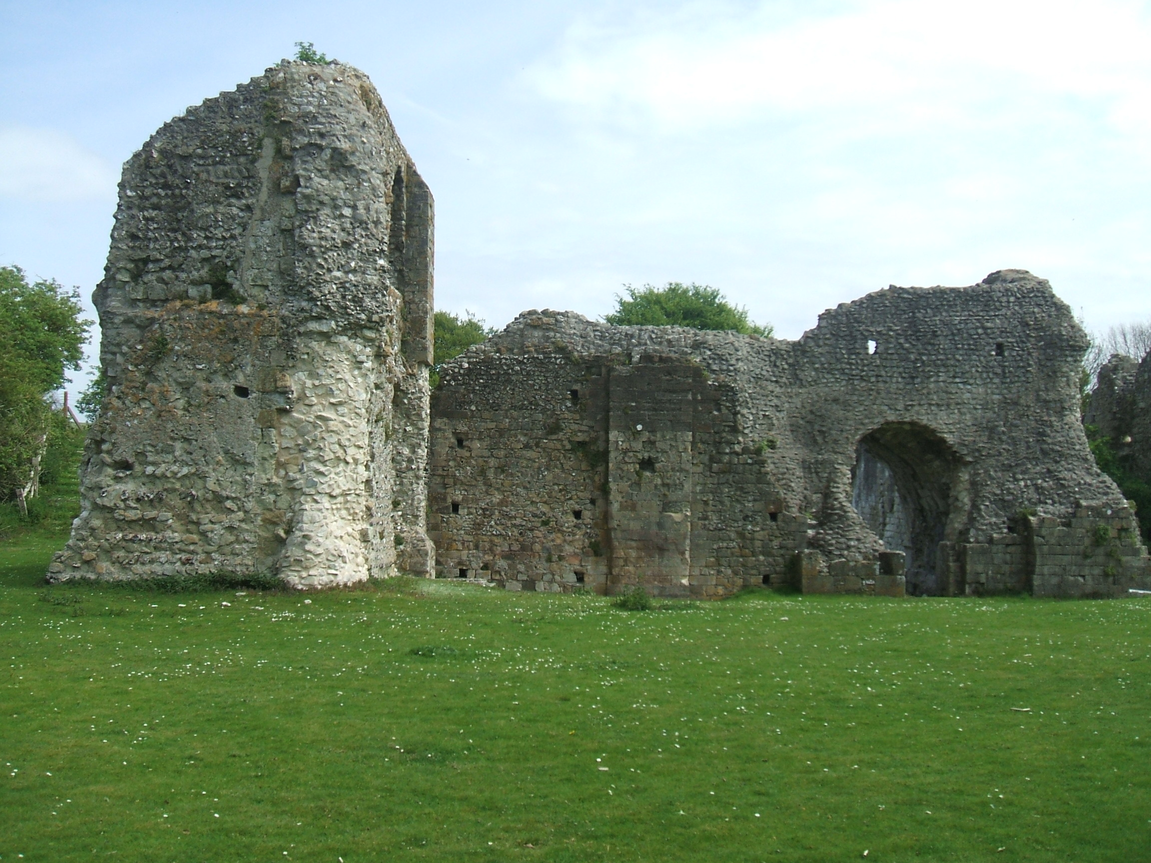 Lewes Priory, East Sussex